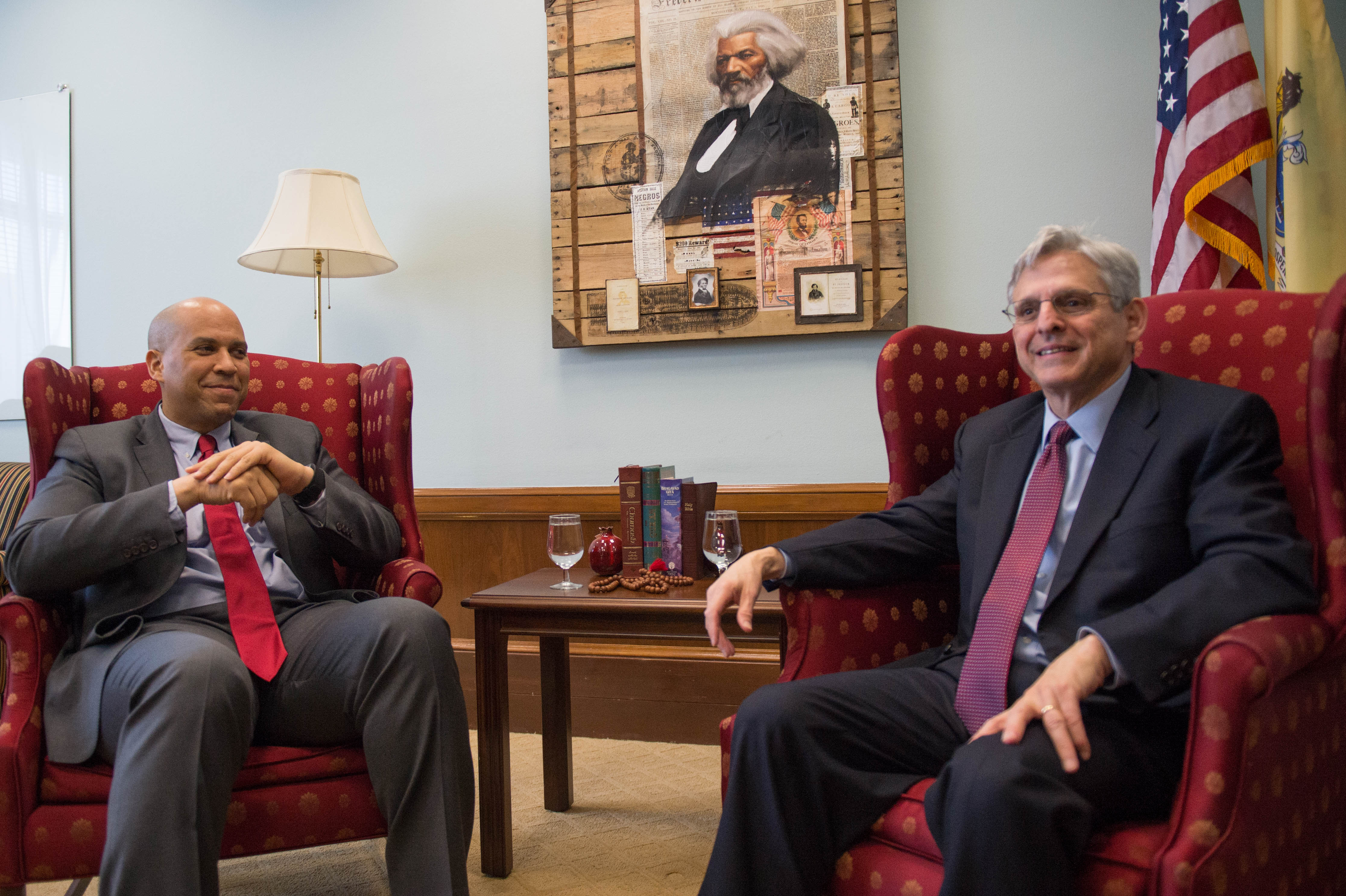 Senator Booker Meets with Judge Garland